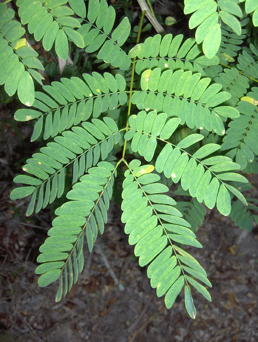 Woman's-Tongue